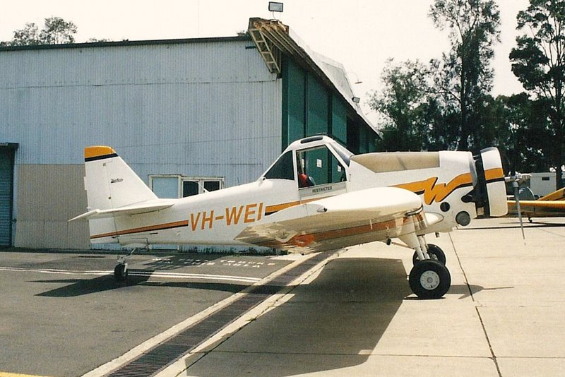 A Weatherly 620B at Bankstown Airport in Sydney, Australia. Image scanned from a 6"x4" photograph of VH-WEI taken by YSSYguy circa March 1998.